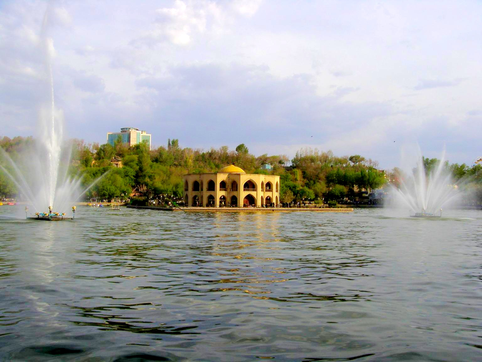 Shah-goli—El-goli Park fountains, Tabriz, Iran.